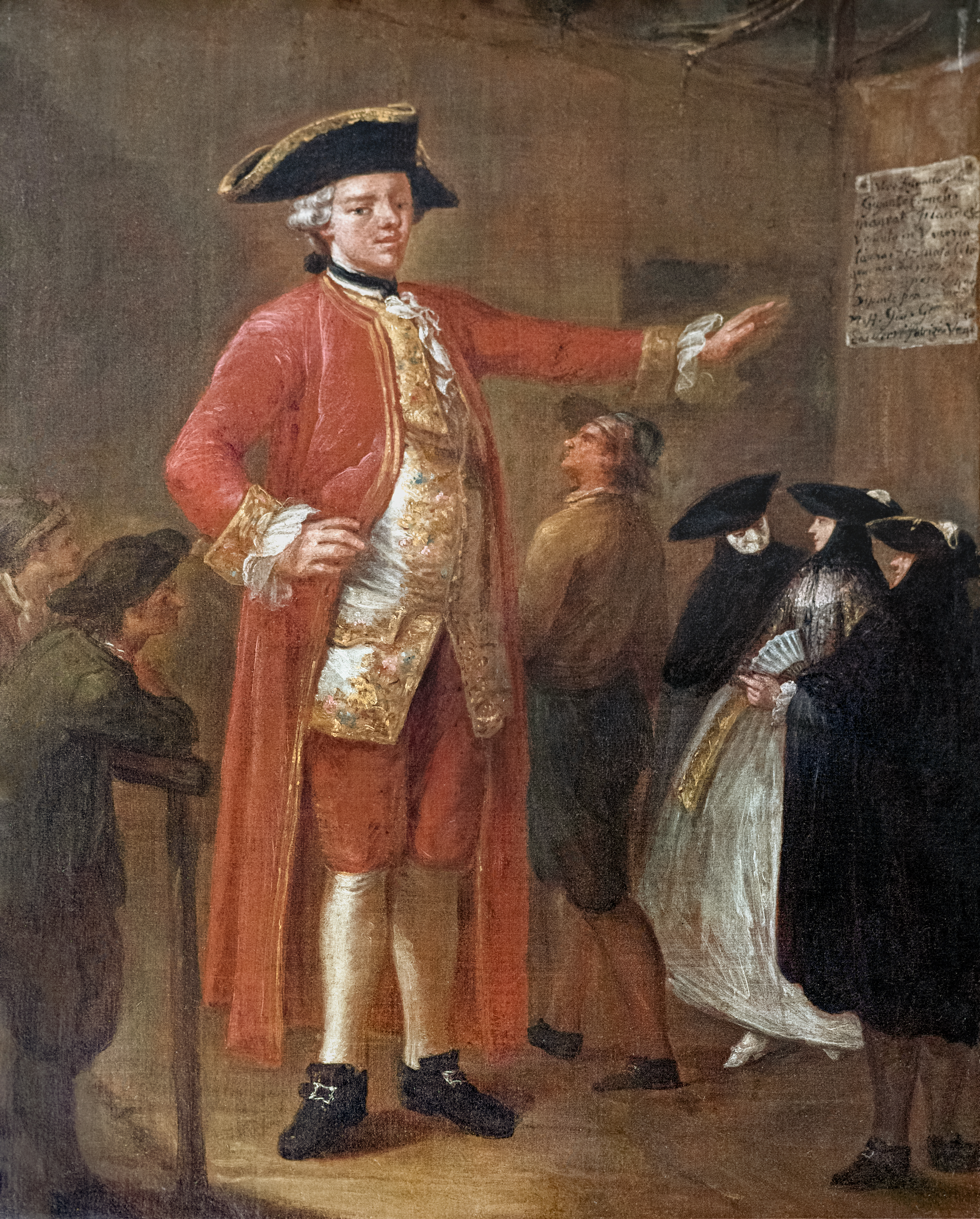 Depicted person: Cornelius Magrath – Irish giant